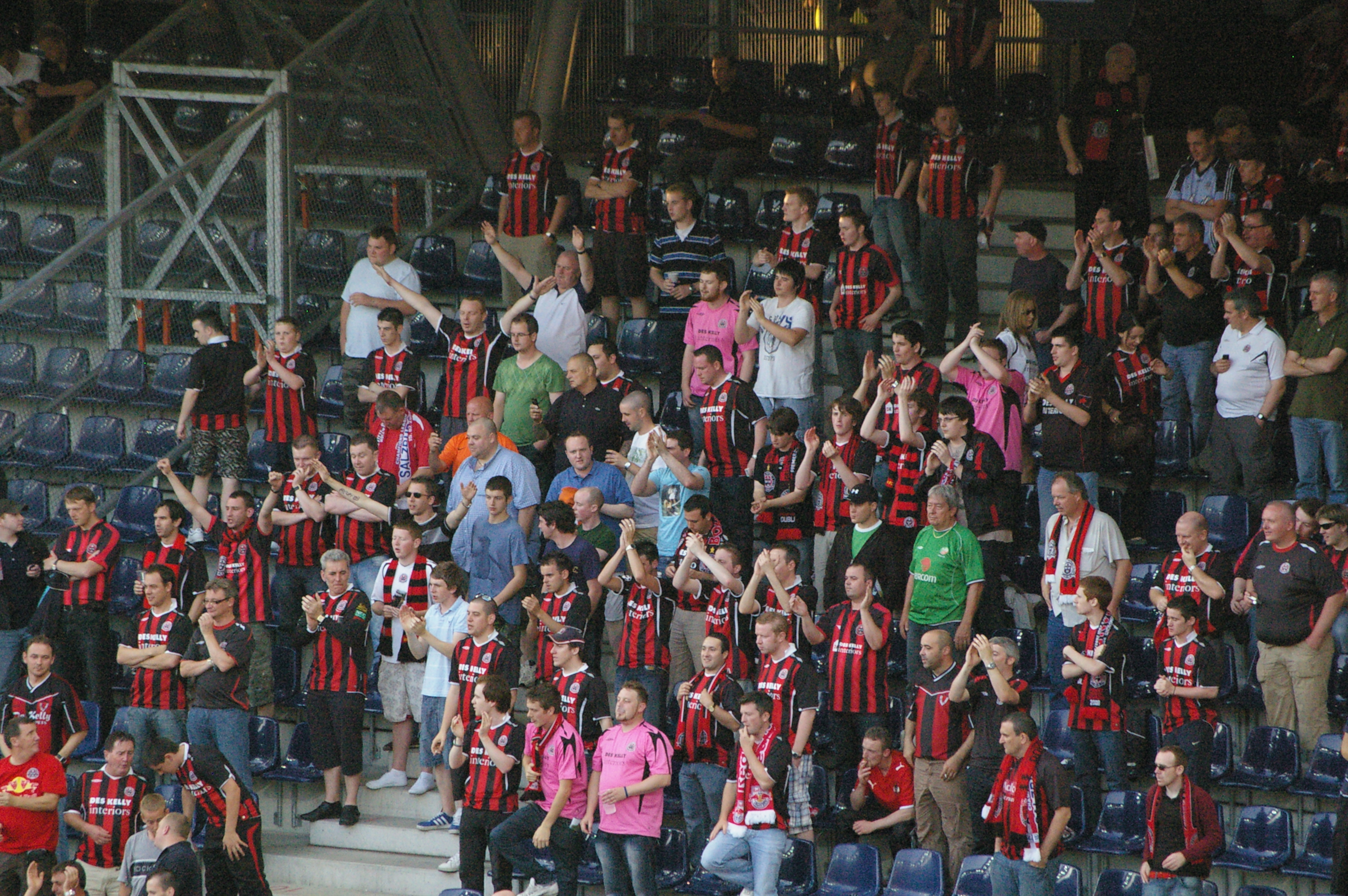 Bohemians Dublin supporters in Salzburg(Champions League qualifer 2nd round vs.Red Bull Salzburg